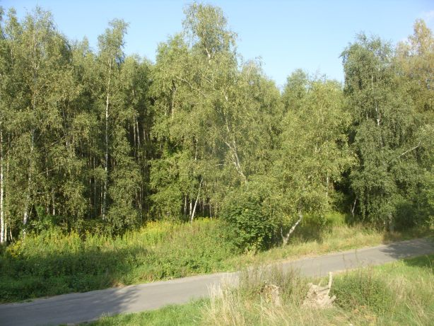 Nature reserve Riddagshausen